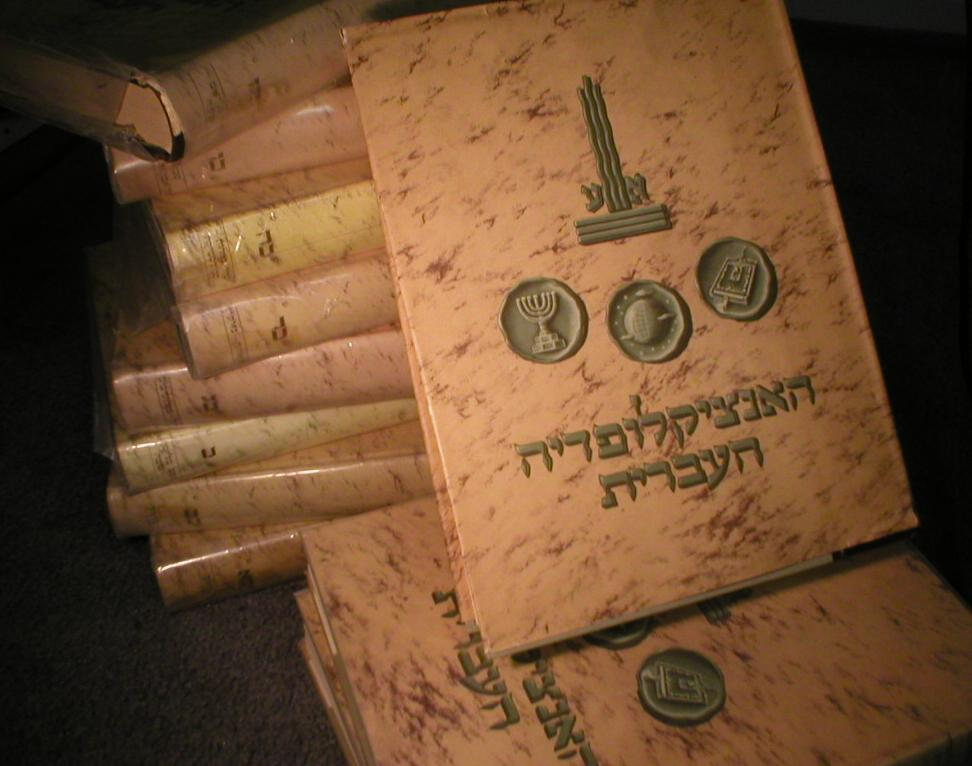 Front cover and stack of volumes of the Encyclopaedia Hebraica